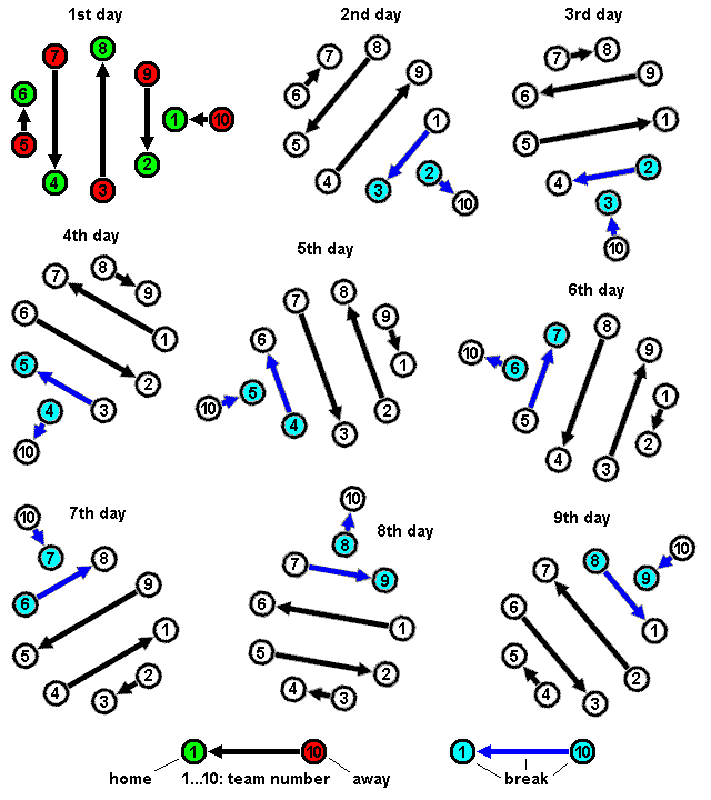 Round-robin tournament schedule for 10 participating teams